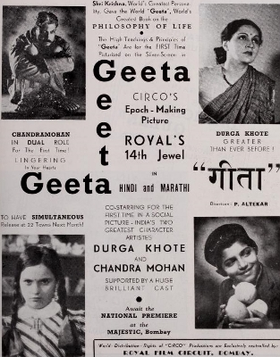 Cropped, resized ad, of film Geeta from cine-magazine Filmindia September 1940 issue